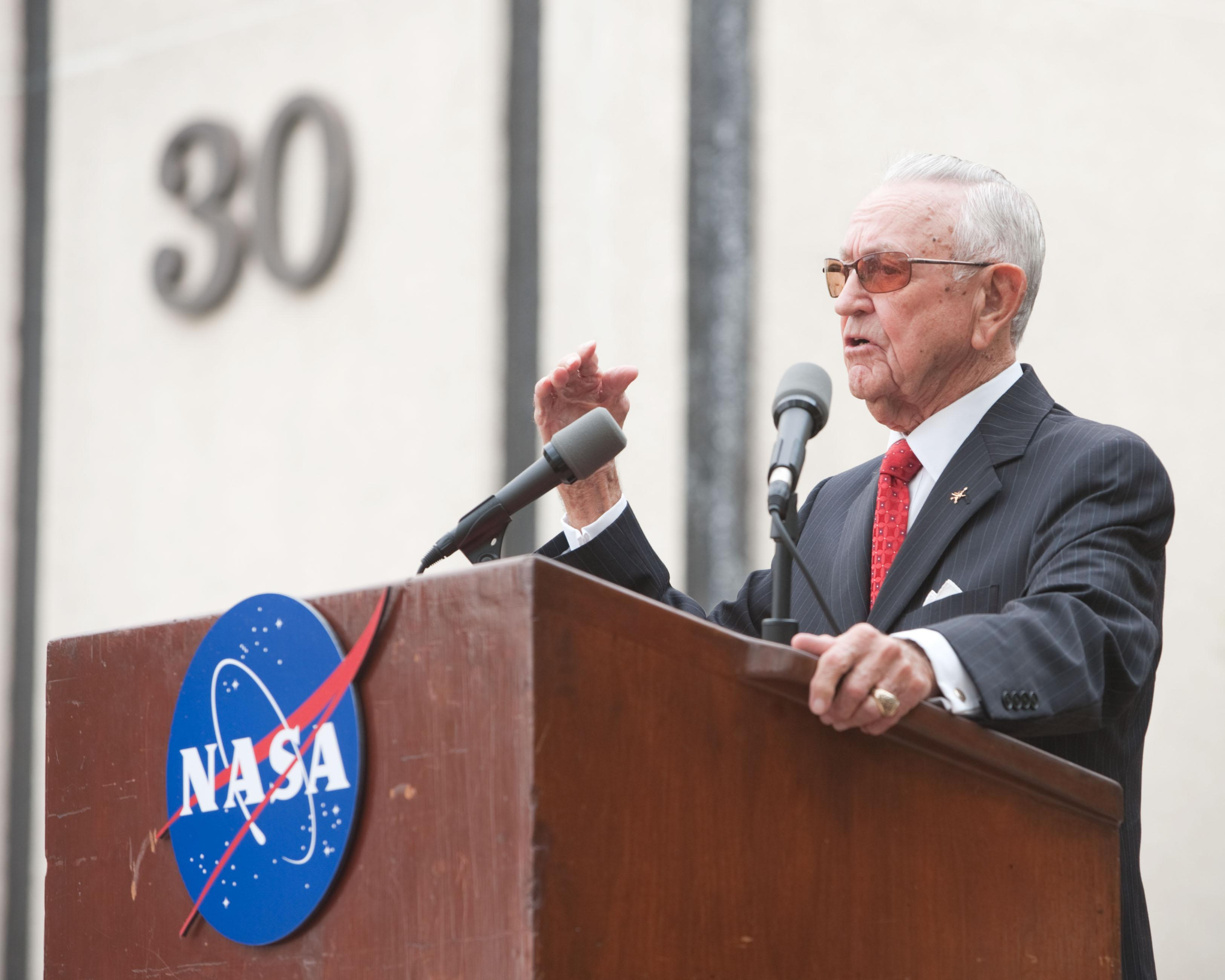 Standing just a few yards from a historic facility which is almost synonymous with his name, Dr. Christopher C. Kraft Jr., responds to a large crowd of admirers during a formal celebration of a naming for the facility and the unveiling of a new nameplate on the building, designating the legendary building as the Christopher C. Kraft, Jr., Mission Control Center.